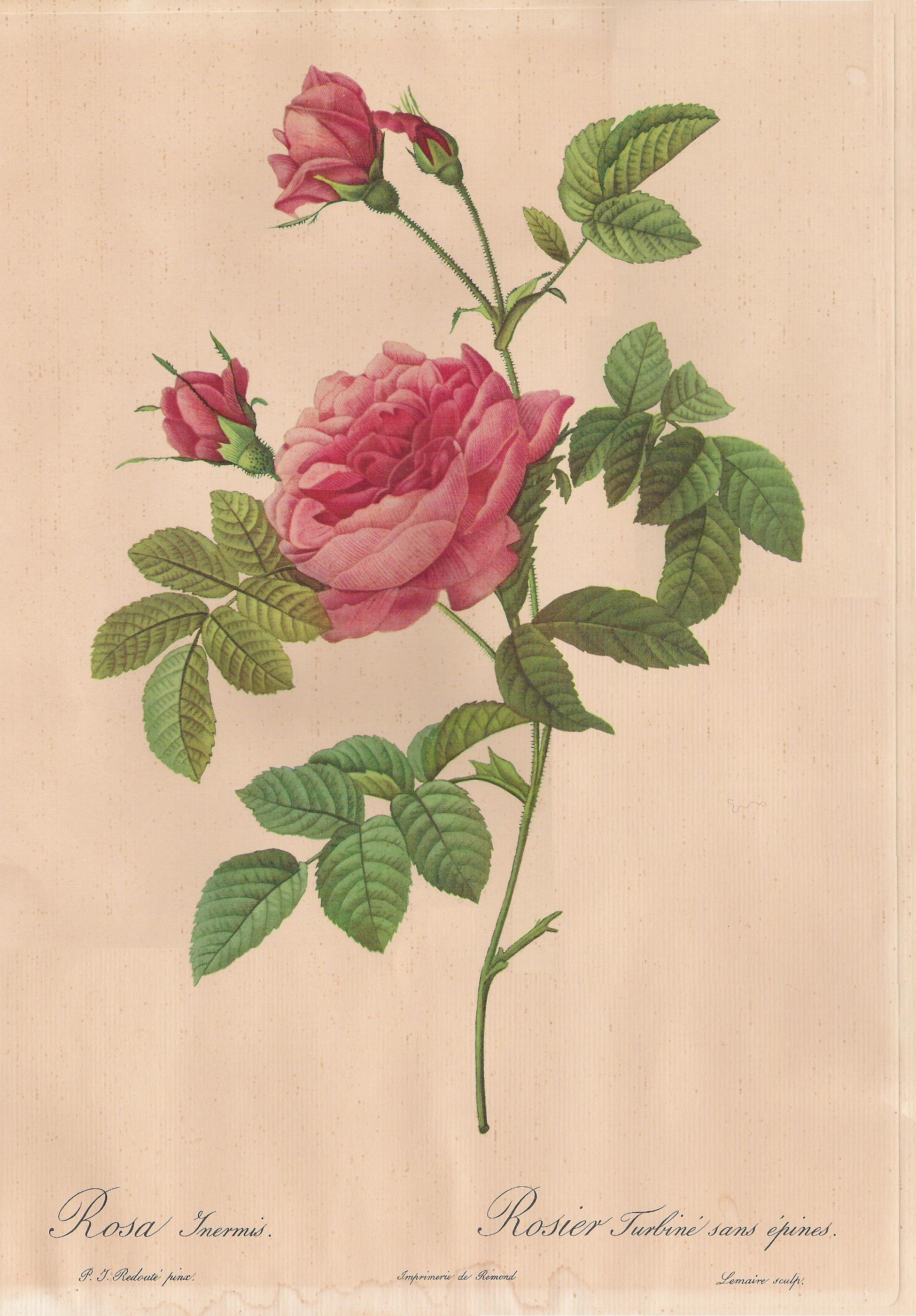 Thornless Rose painted by Pierre-Joseph Redouté, etched by Charles Lemaire